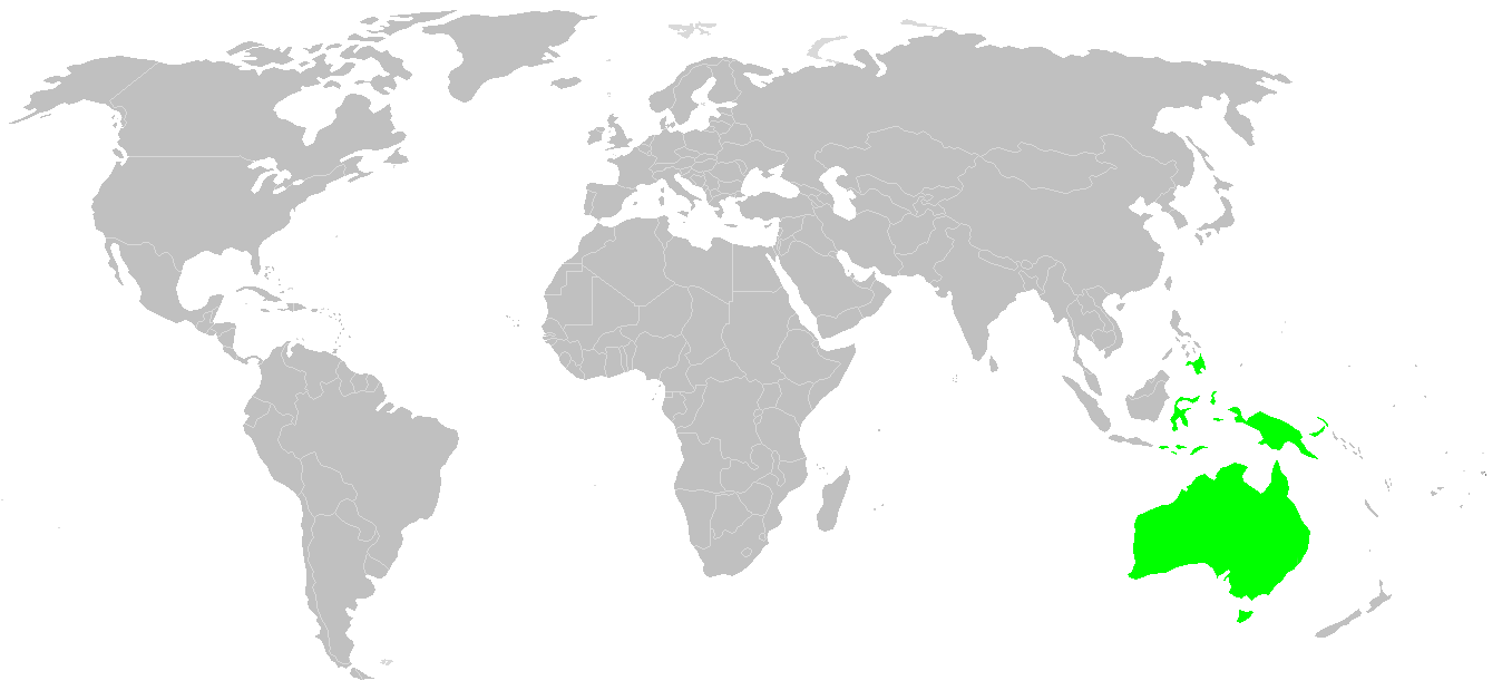 Natural world distribution of Eucalyptus, according to the book "Plant" (2005) ISBN 075660589X